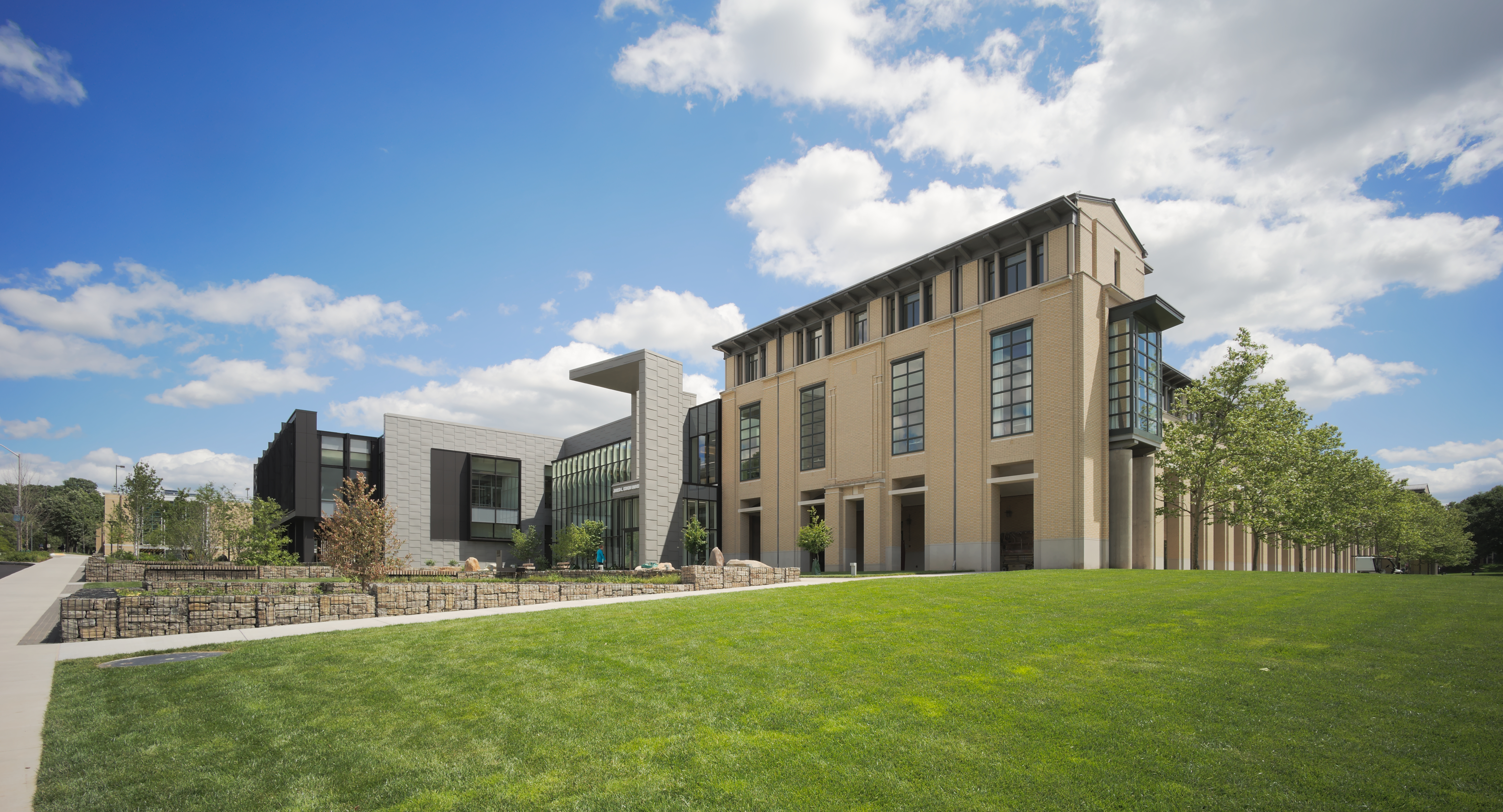 Cohon University Center at Carnegie Mellon University contains an indoor swimming pool, bookstore, student club facilities, gym, and cafeteria. In 2016, a new expansion (left) opened. The building is named after Jared Cohon.